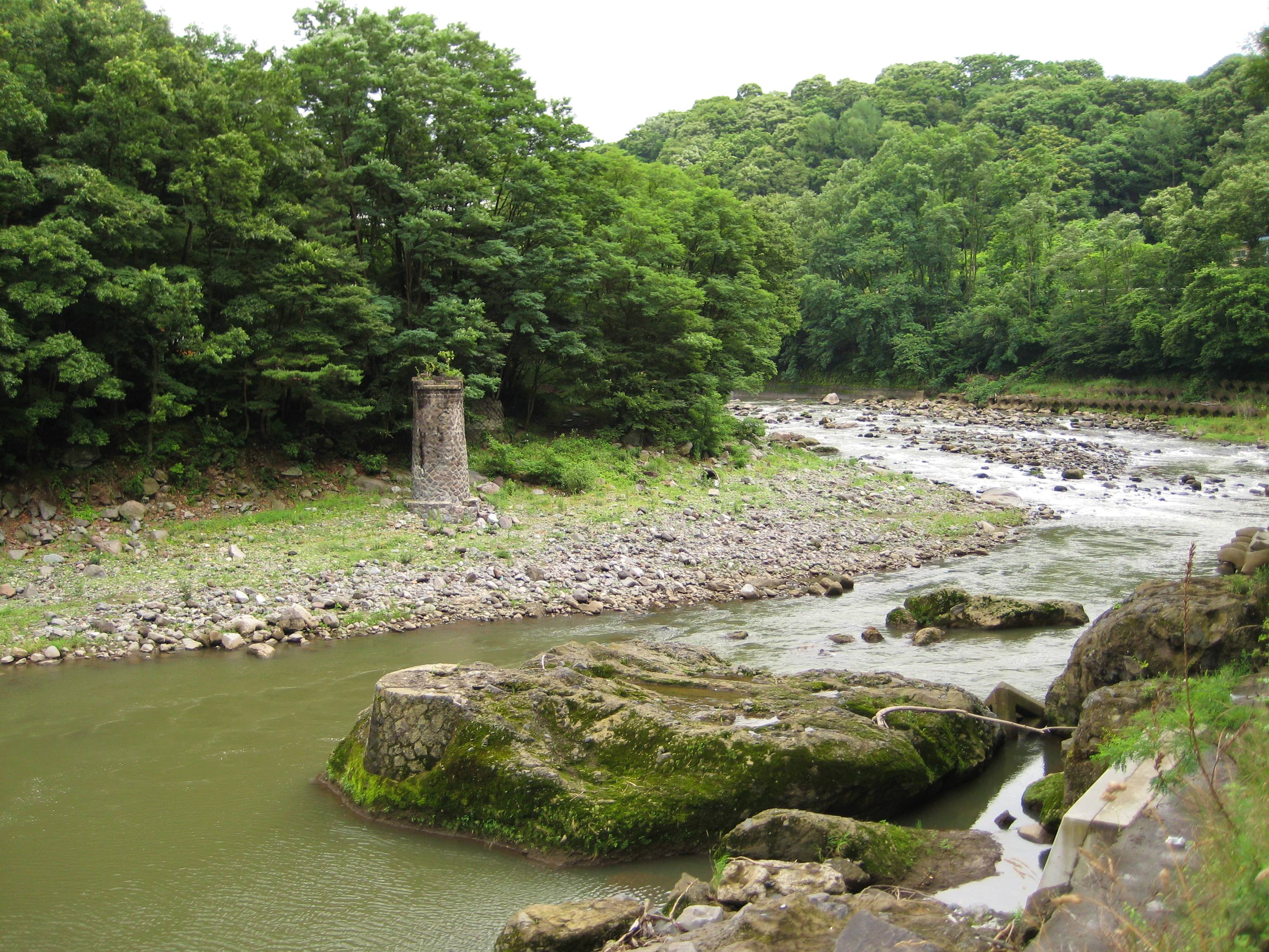 Nunobiki Electric Railway Chikumagawa Bridge ruins.